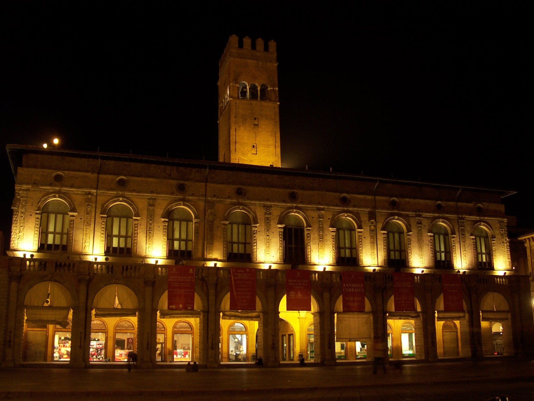 Night view of the facade of Palazzo del Podestà palace in Piazza Maggiore square in Bologna, Italy. It was projected by Aristotile Fioravanti in 1453.